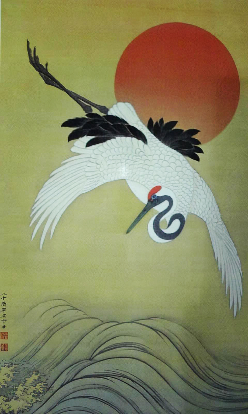 Painting of the crane in the morning.